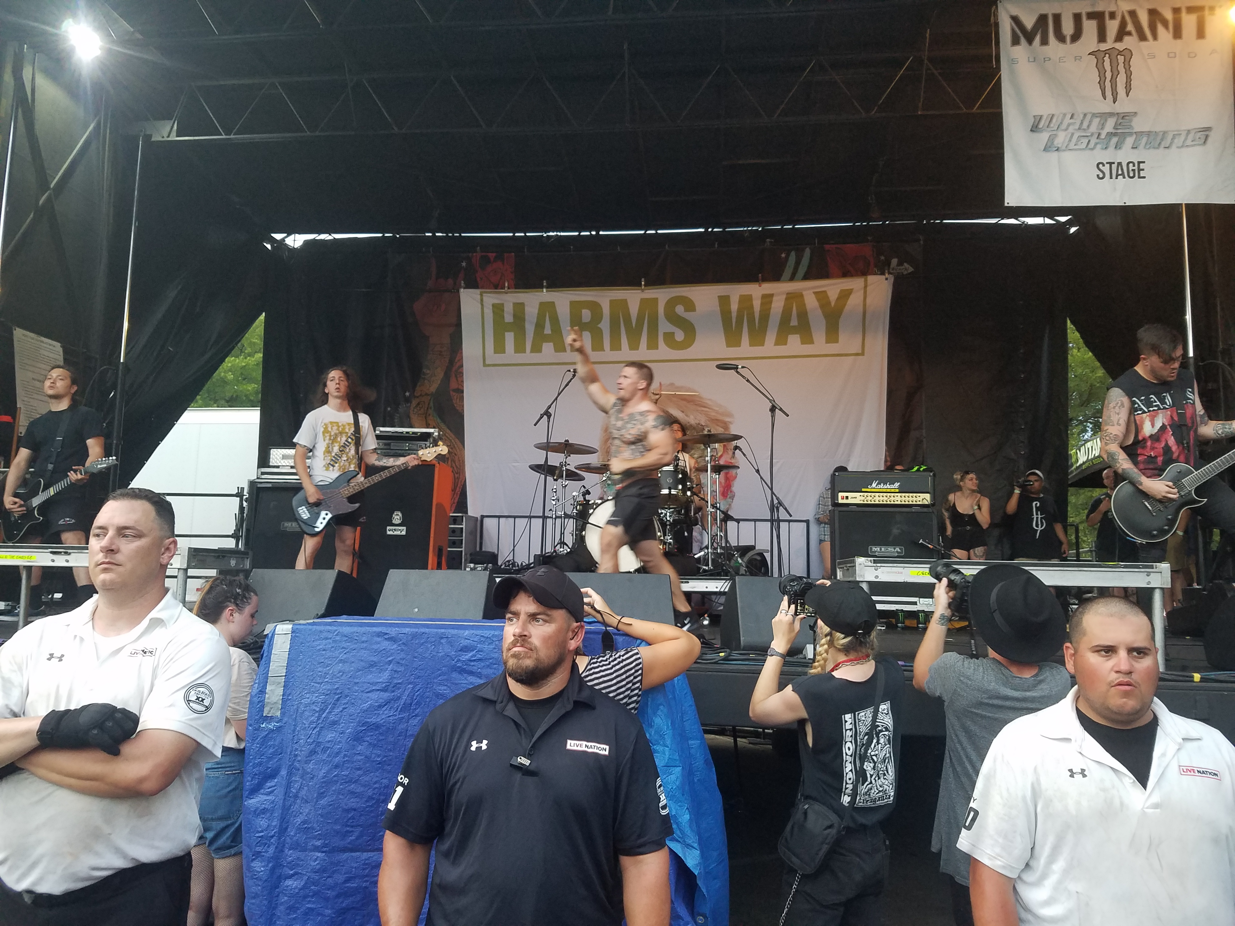 Harms Way performing in 2018